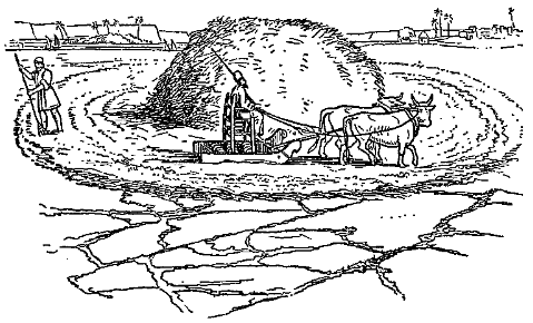 An illustration from the Encyclopaedia Biblica, a 1903 publication which is now in the public domain. Fig. 11 for article "Agriculture". Image of a threshing machine used in Egypt during the late 19th century.